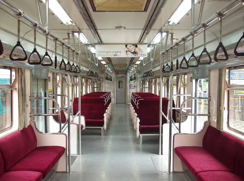 Interior of Korail CDC.